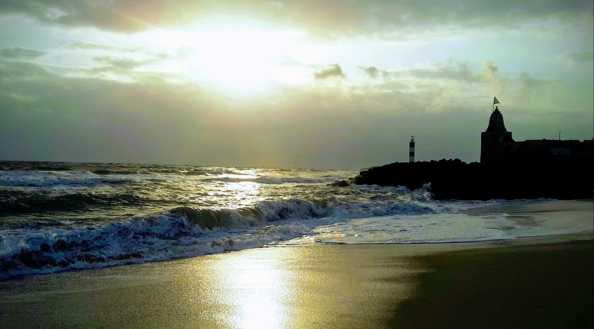 This picture was taken in the late evening in the sea shores of Dwarka Beach in Gujarat.